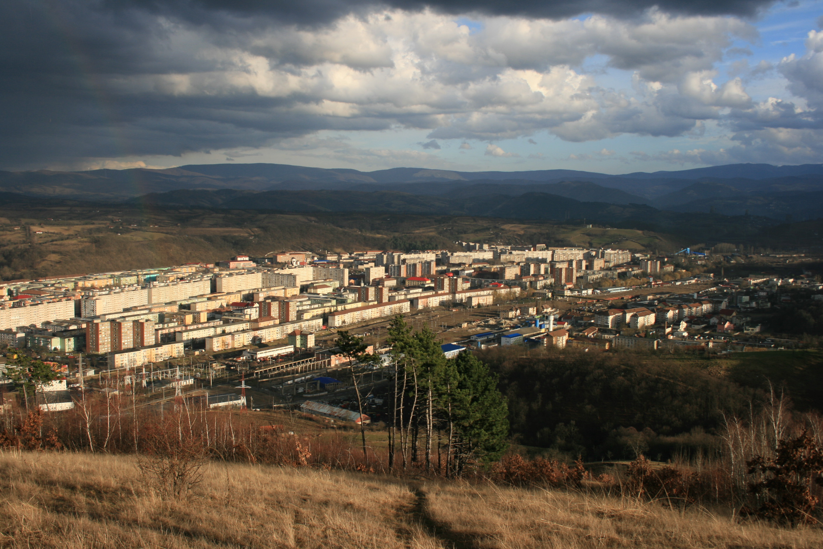 View of North Reşiţa.